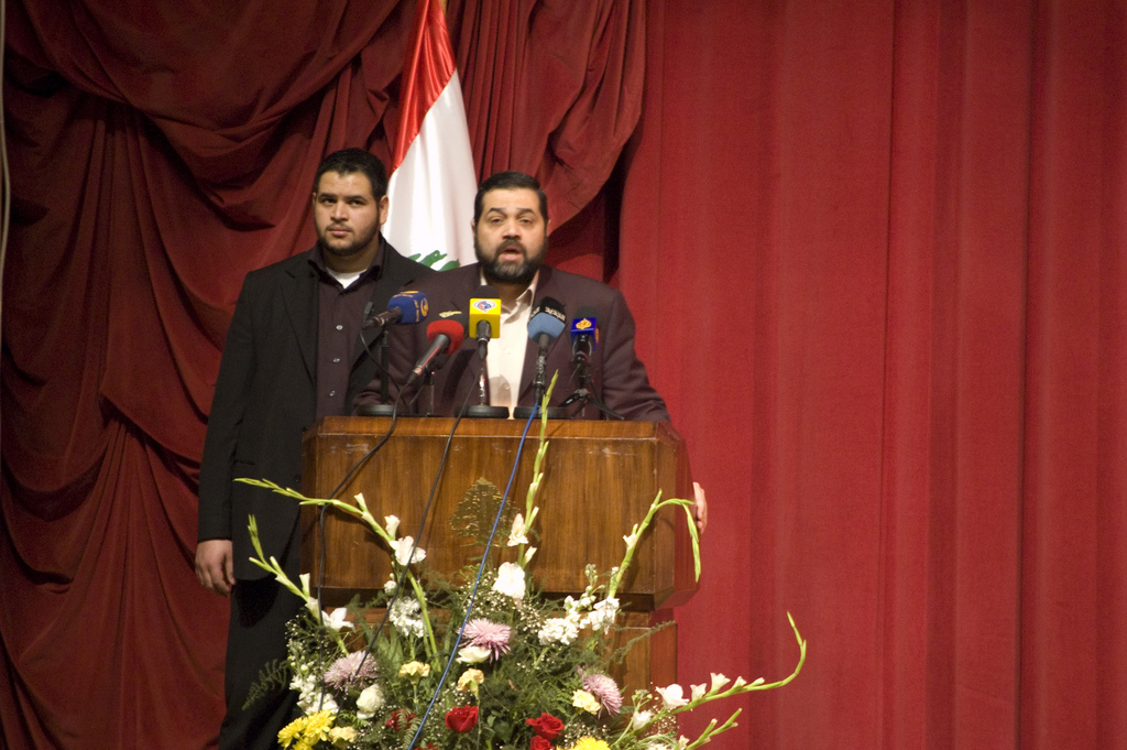 Osama Hamdan, the top representative of Hamas in Lebanon